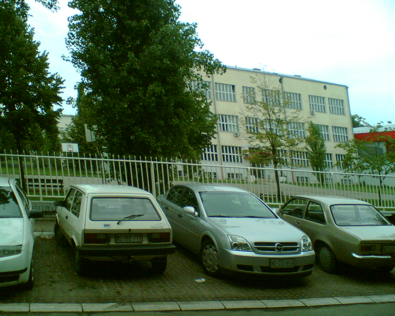 School Serbia holiday empty - Gymnasium Isidora Sekulić, during the summer holidays.